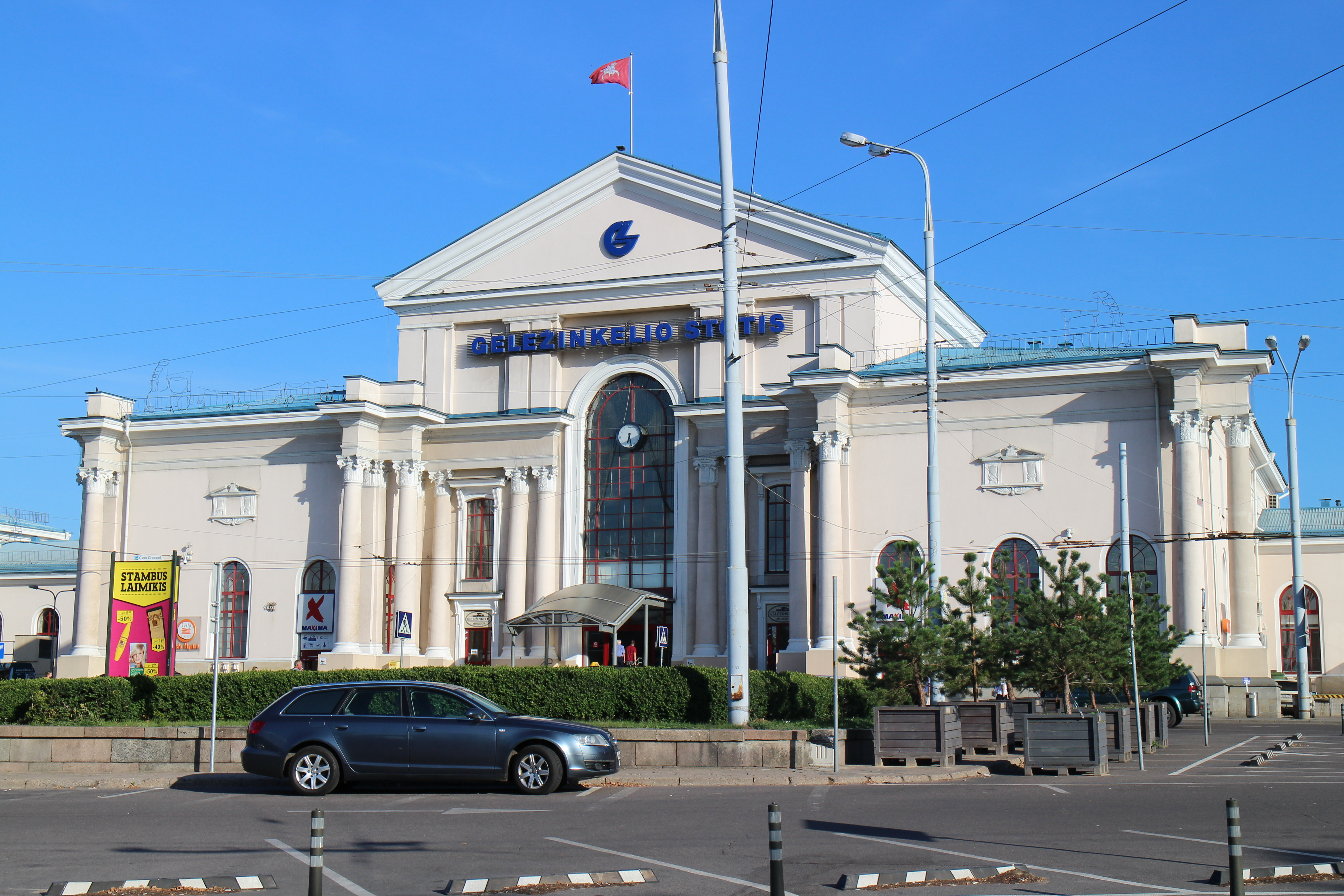 Vilnius train station